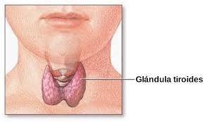 dfhfghdfgdfh